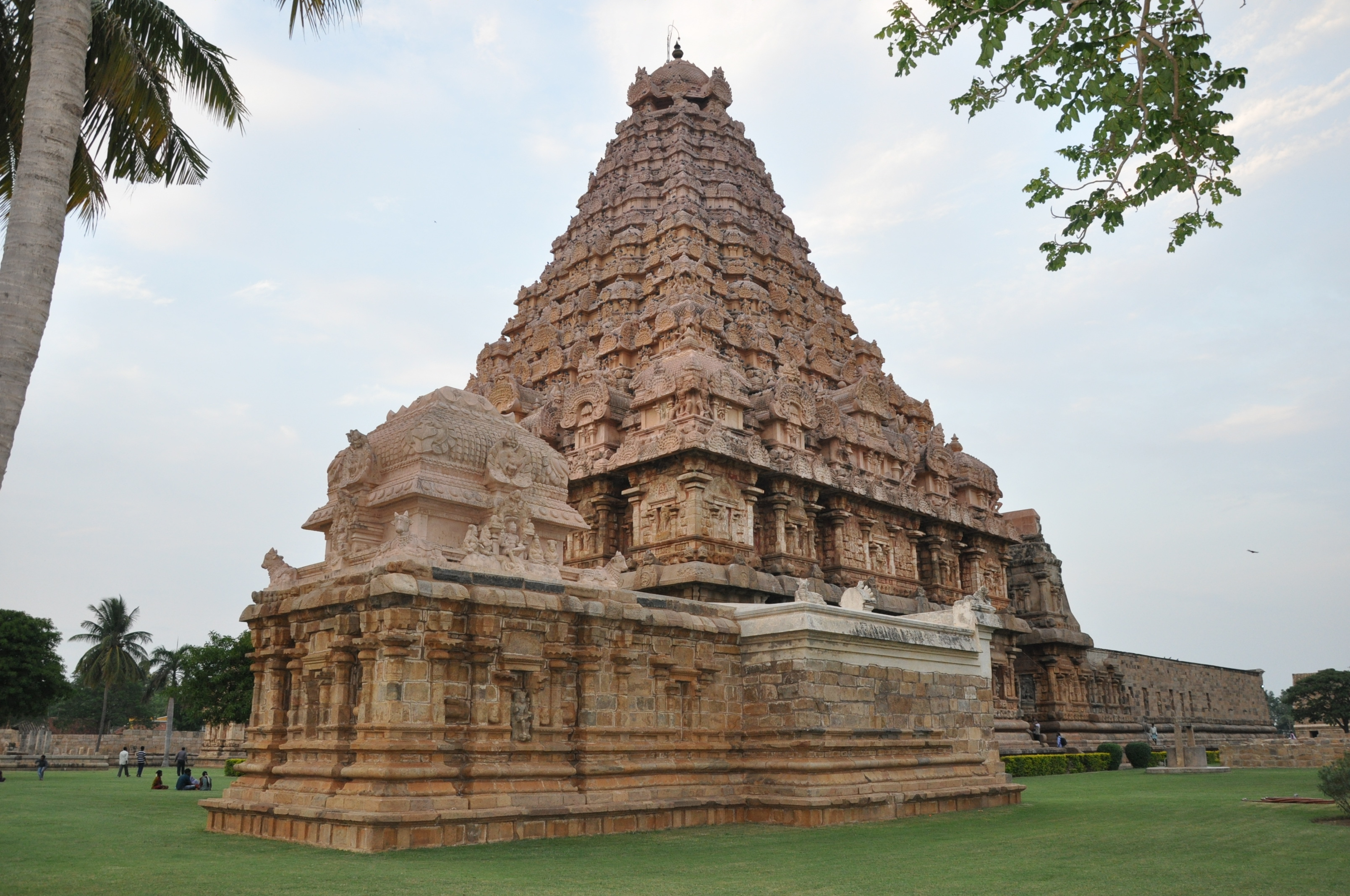 "A low angle of Brihadisvara Temple of Gangaikonda Cholapuram " .Location: Gangaikonda Cholapuram, Near Jeyankondam, Ariyalur District, Tamil Nadu, India.